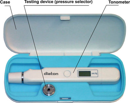 Hand-held Diaton tonometer with Test and Training Eye case